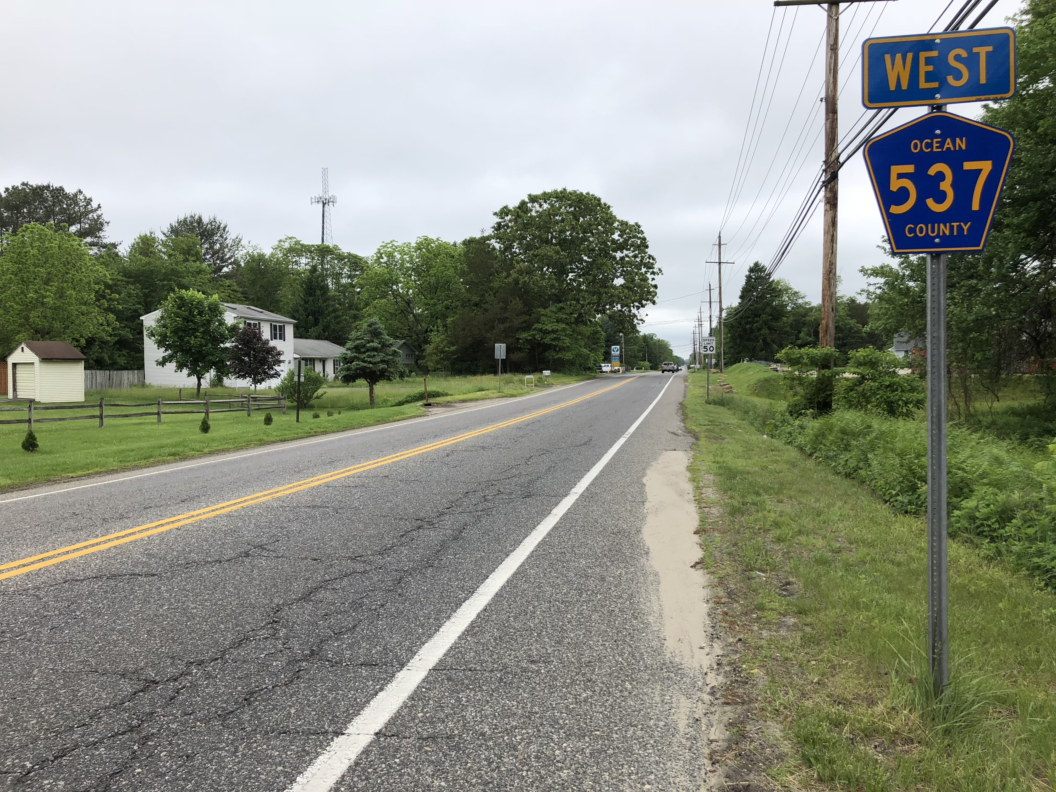 View west along County Route 537 (Monmouth Road) at Ocean County Route 20 (Millstream Avenue) on the border of Upper Freehold Township, Monmouth County and Plumsted Township, Ocean County in New Jersey